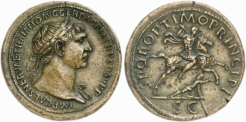 Traianus. AD 98-117. Sestertius (Orichalcum, 25.83 g 6), Rome, 105. IMP CAES NERVAE TRAIANO AVG GER DAC P M TR P COS V P P Laureate head of Trajan to right, with slight drapery on his far shoulder. S P Q R OPTIMO PRINCIPI S C Trajan, in armor, on horse galloping to right, hurling spear at fallen Dacian crawling to right. BMC 839. Cohen 508. Hill 216. RIC 543. A lovely clear example with a splendid portrait. Lovely brownish gold Tiber patina. Minor flan crack, otherwise, extremely fine. This is a beautiful example of one of Trajan’s issues commemorating his victories in the Dacian wars.